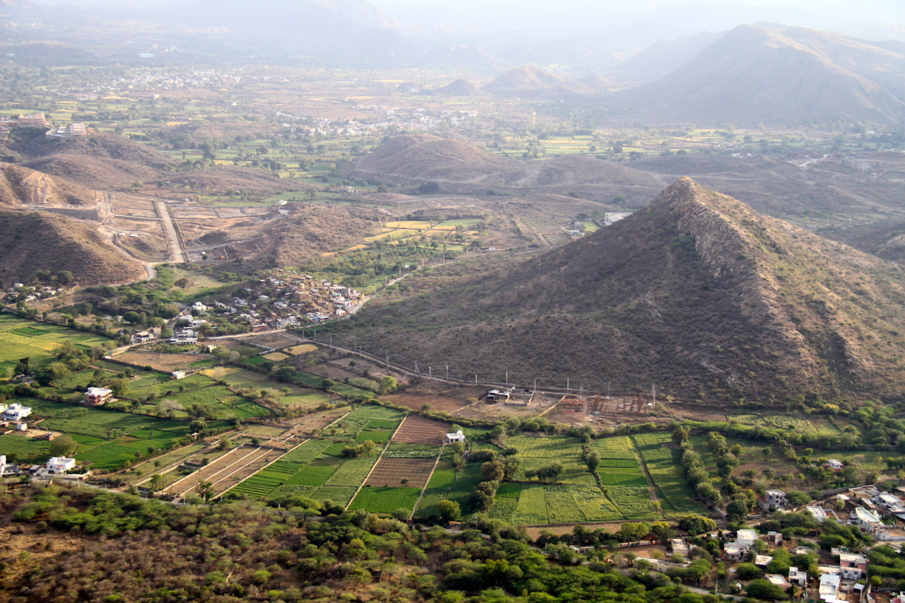 Udaipur city and neighboring Aravalli mountains region Lakes, villages, cities, rural parts of southeast and south Rajasthan Aravali range, Rajasthan India March 2015